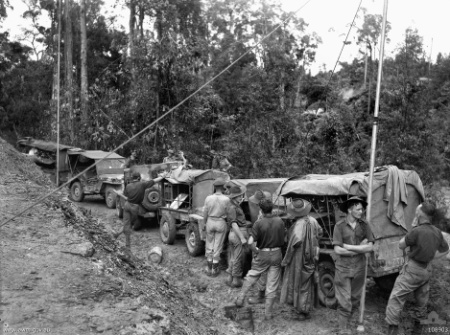 Australian War Memorial image 108903. RAAF ground controllers directing B-24 Liberator heavy bombers which are attacking Joyce and Lizzie features on Tarakan